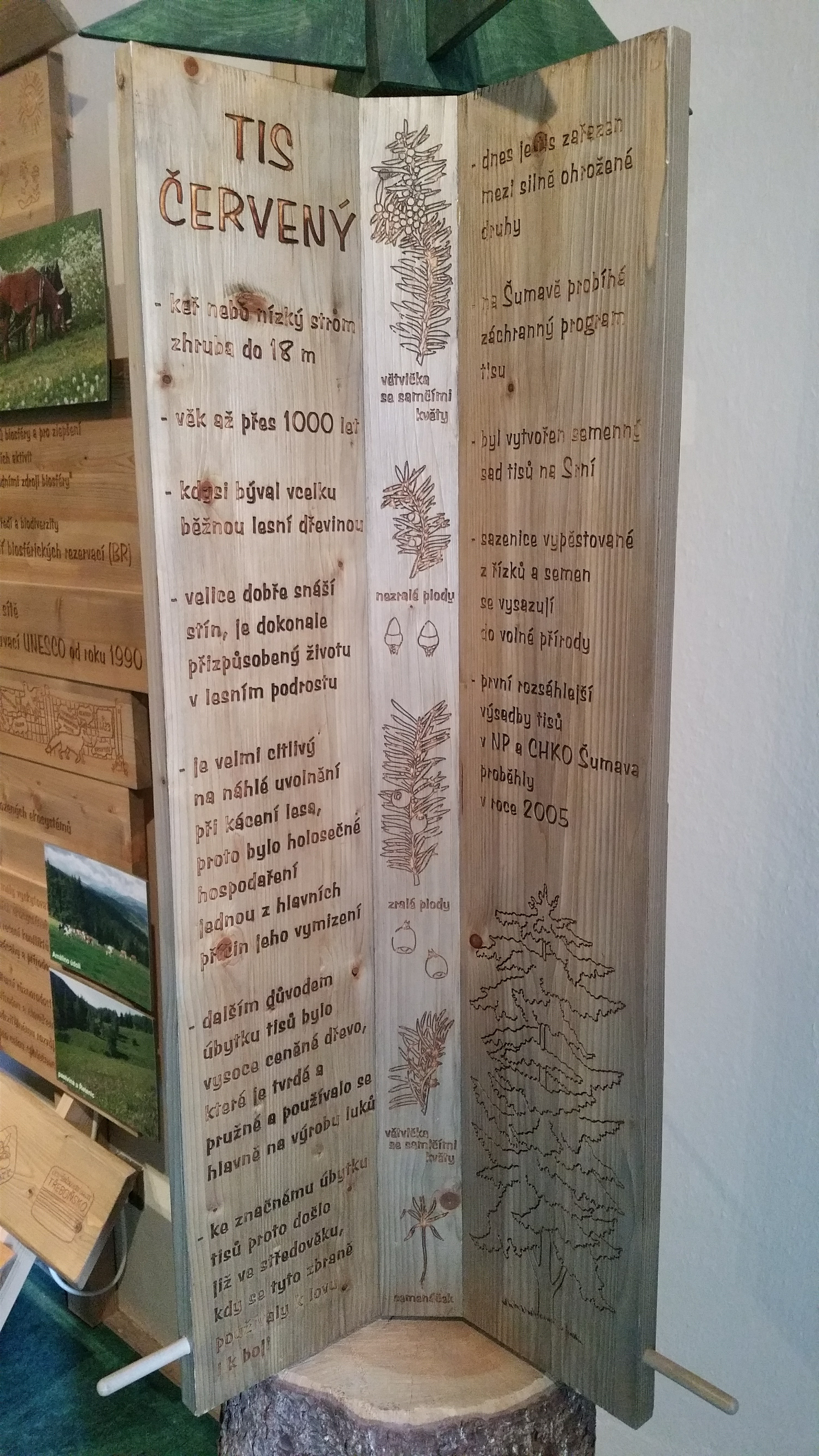 Museum of Vimperk - Šumava nature